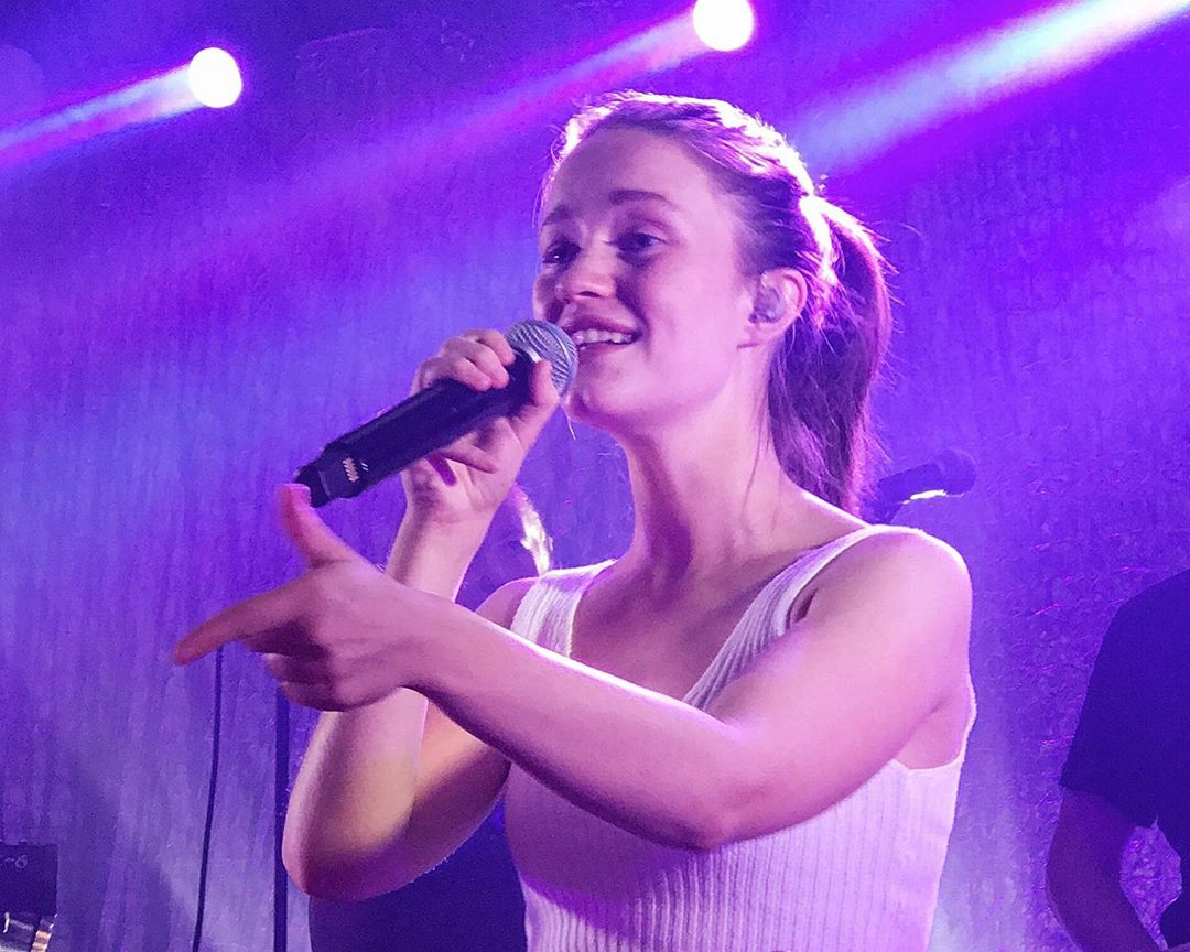 Sigrid Solbakk Raabe performing during her 'The Sucker Punch Tour' in Detroit Michigan, USA at El Club on September 26, 2019.